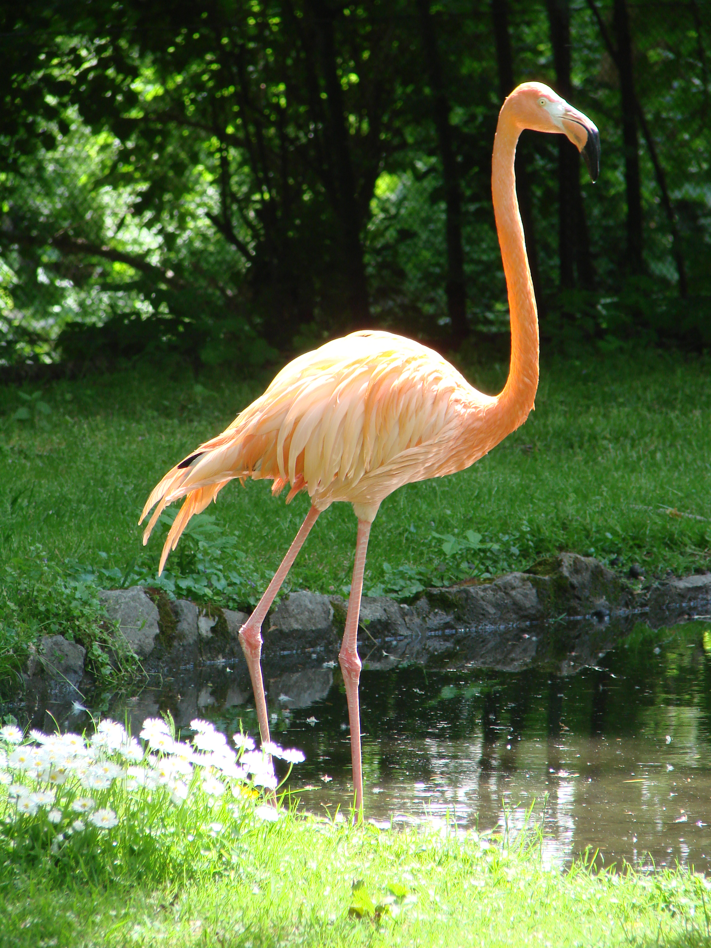 Picture taken in the zoo of Wrocław (Poland): Phoenicopterus ruber (Linnaeus, 1758)